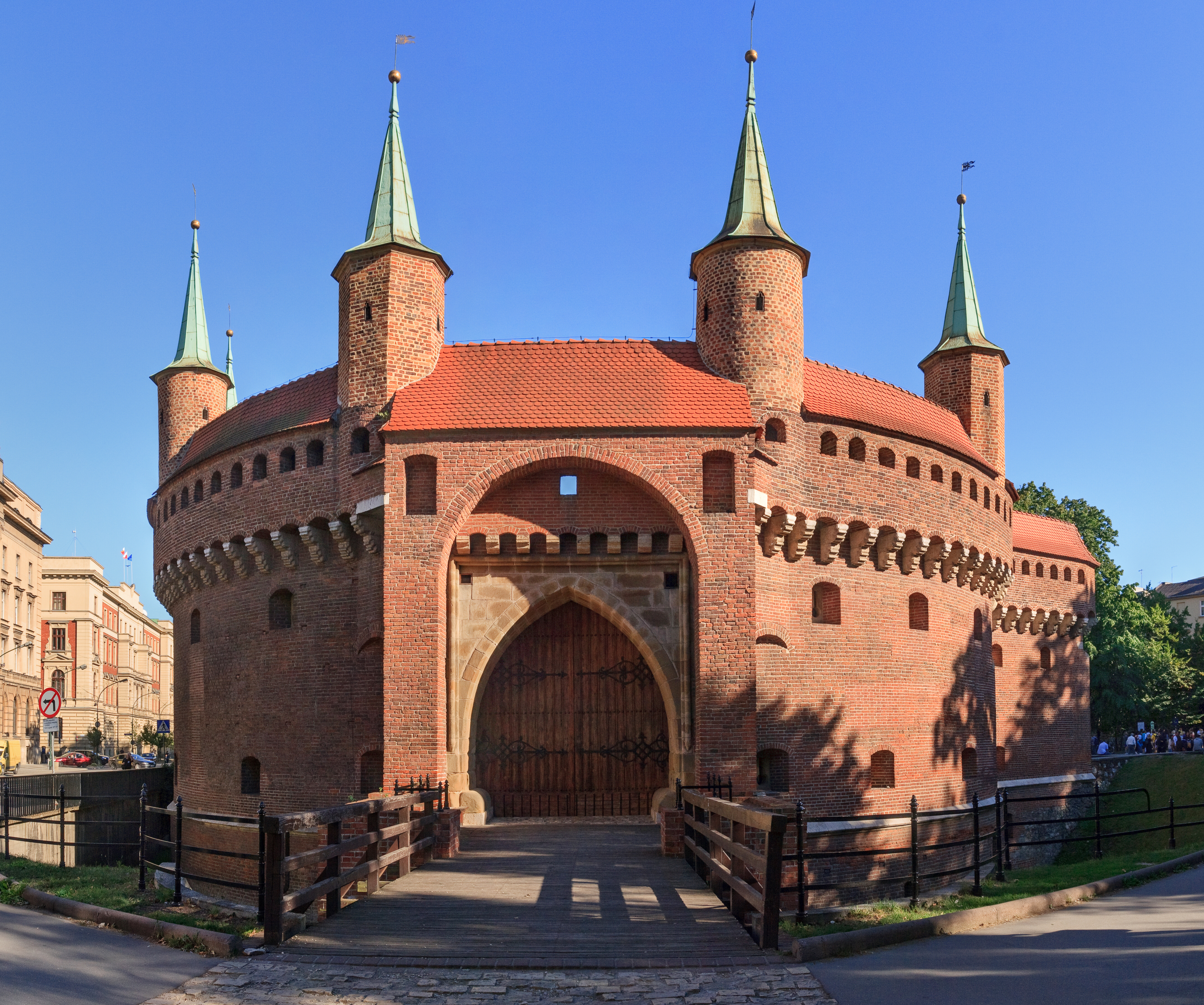 Barbakan in Krakow